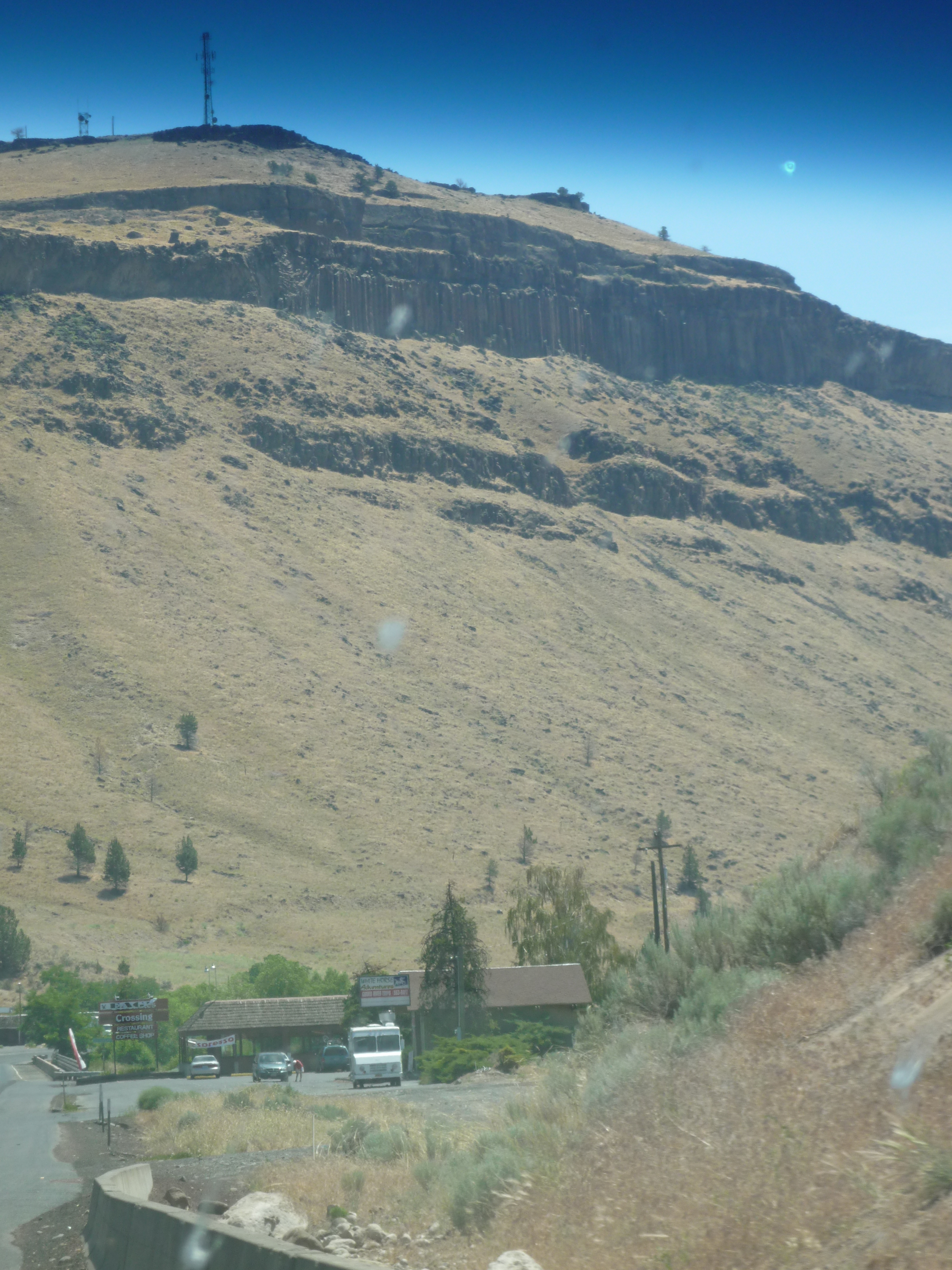 Warms Springs, Oregon